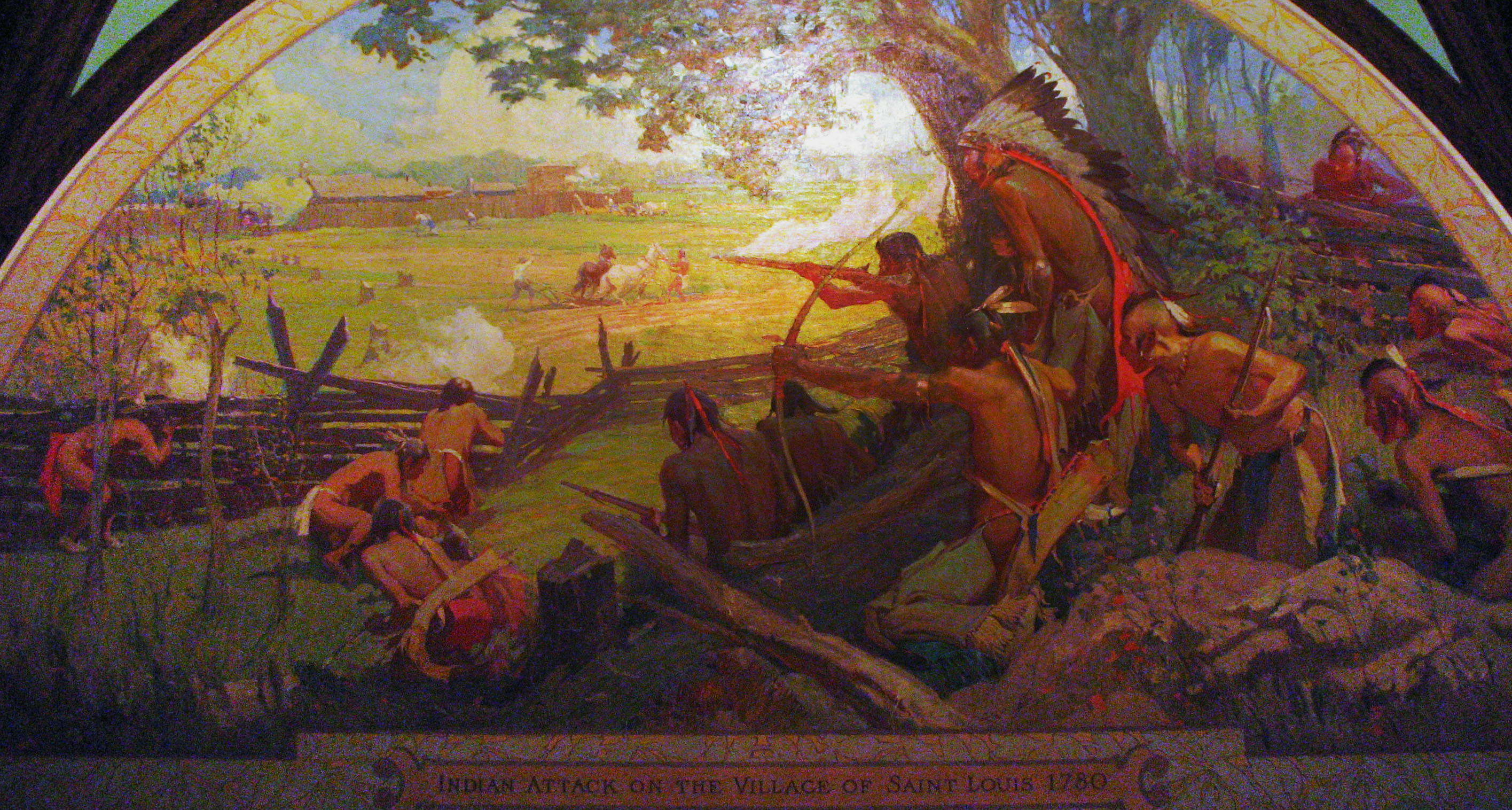 Photograph of a mural entitled Indian Attack on the Village of Saint Louis, 1780, depicting the Battle of St. Louis.